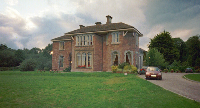 An Óige International Youth Hostel at Aghadoe House nr Killarney This magnificent youth hostel, Aghadoe House, is some three or four miles north-west of Killarney; it has been one of An Óige's most visited hostels since it opened in 1957. It was established with the aid of a grant from the National Development Fund, and has been considerably updated and extended over the years. Photographed here in 2002. An earlier hostel at nearby Toomies (1949-1957) has now been demolished. Please contact if you have any tales to tell of hostels such as these.